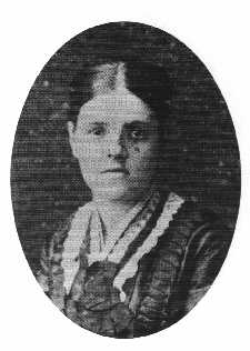 Hannah Barlow, artist.